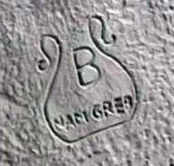 Foundry mark of Franz Xavier Bergman